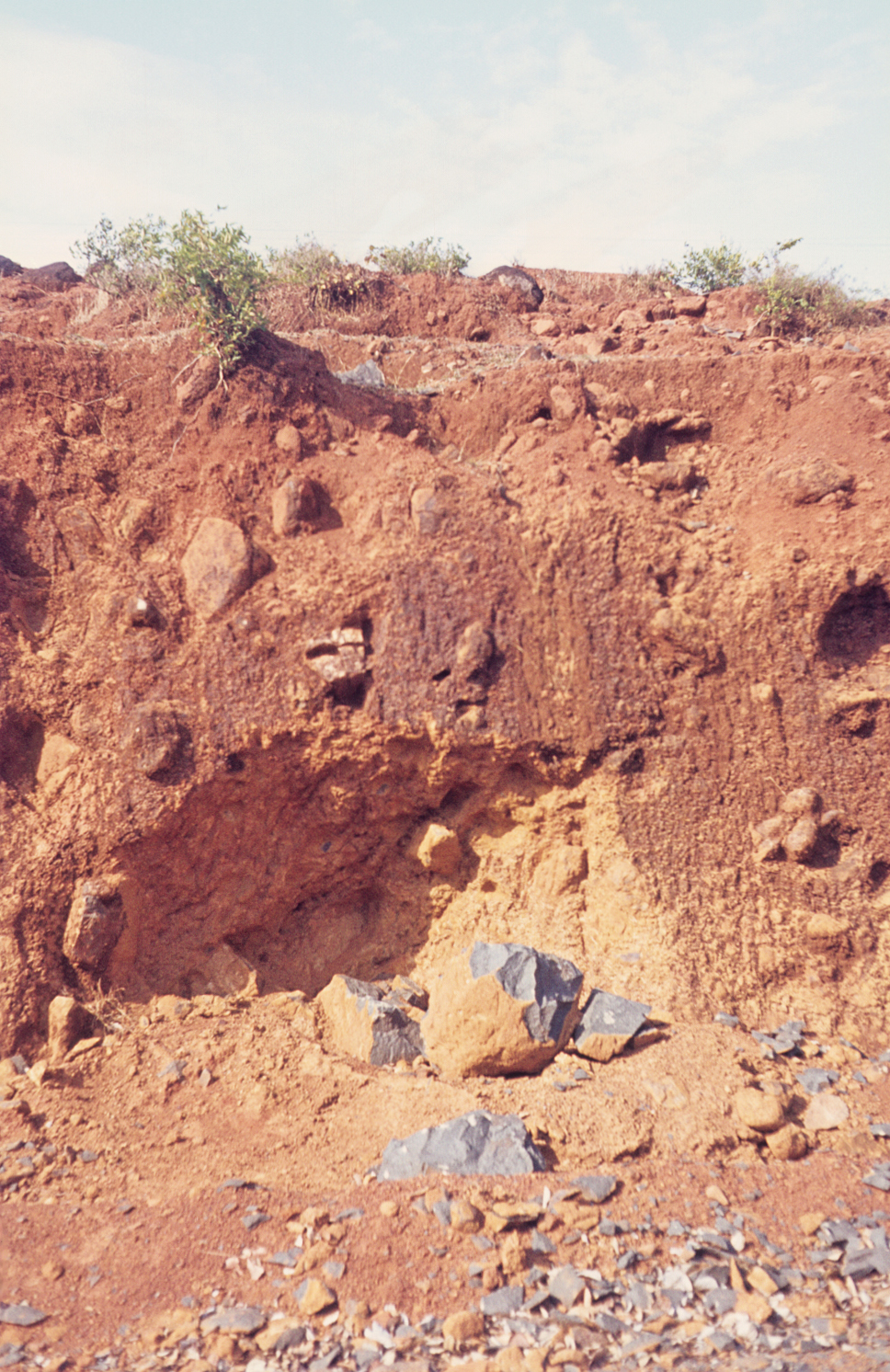 Laterite with relics of unweathered basalt. Puttur, Kerala, India